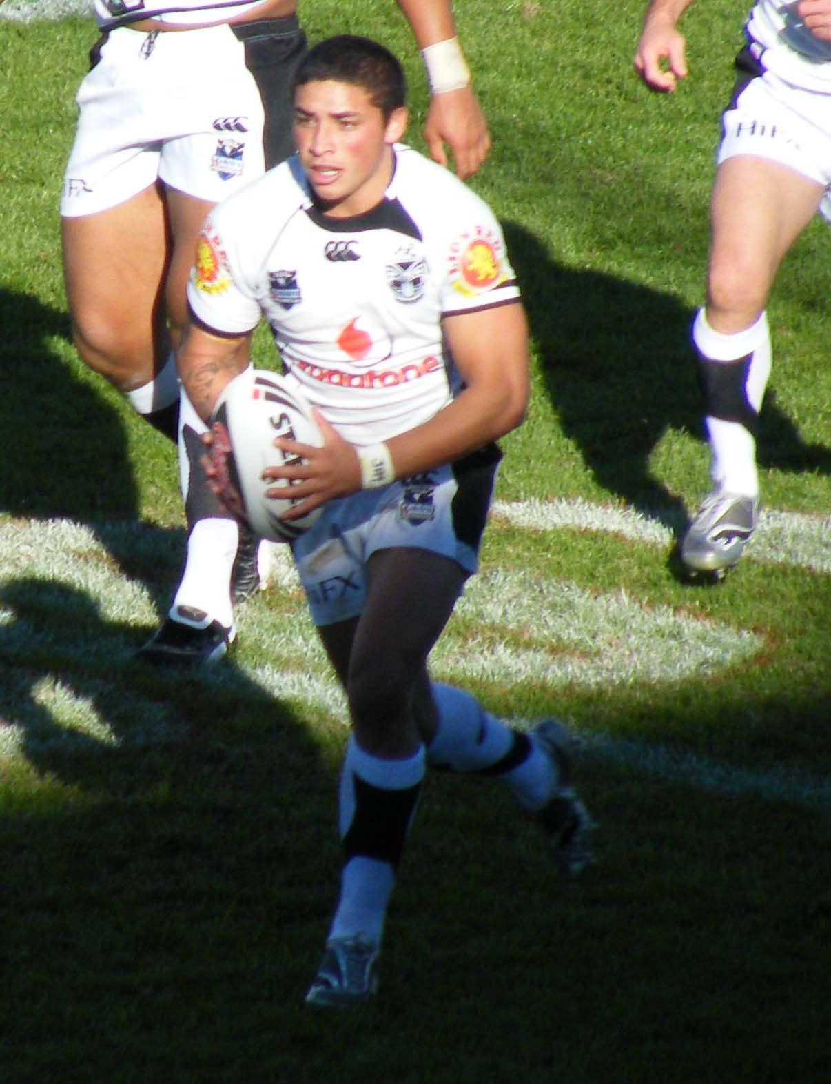 Kevin Locke of the New Zealand Warriors